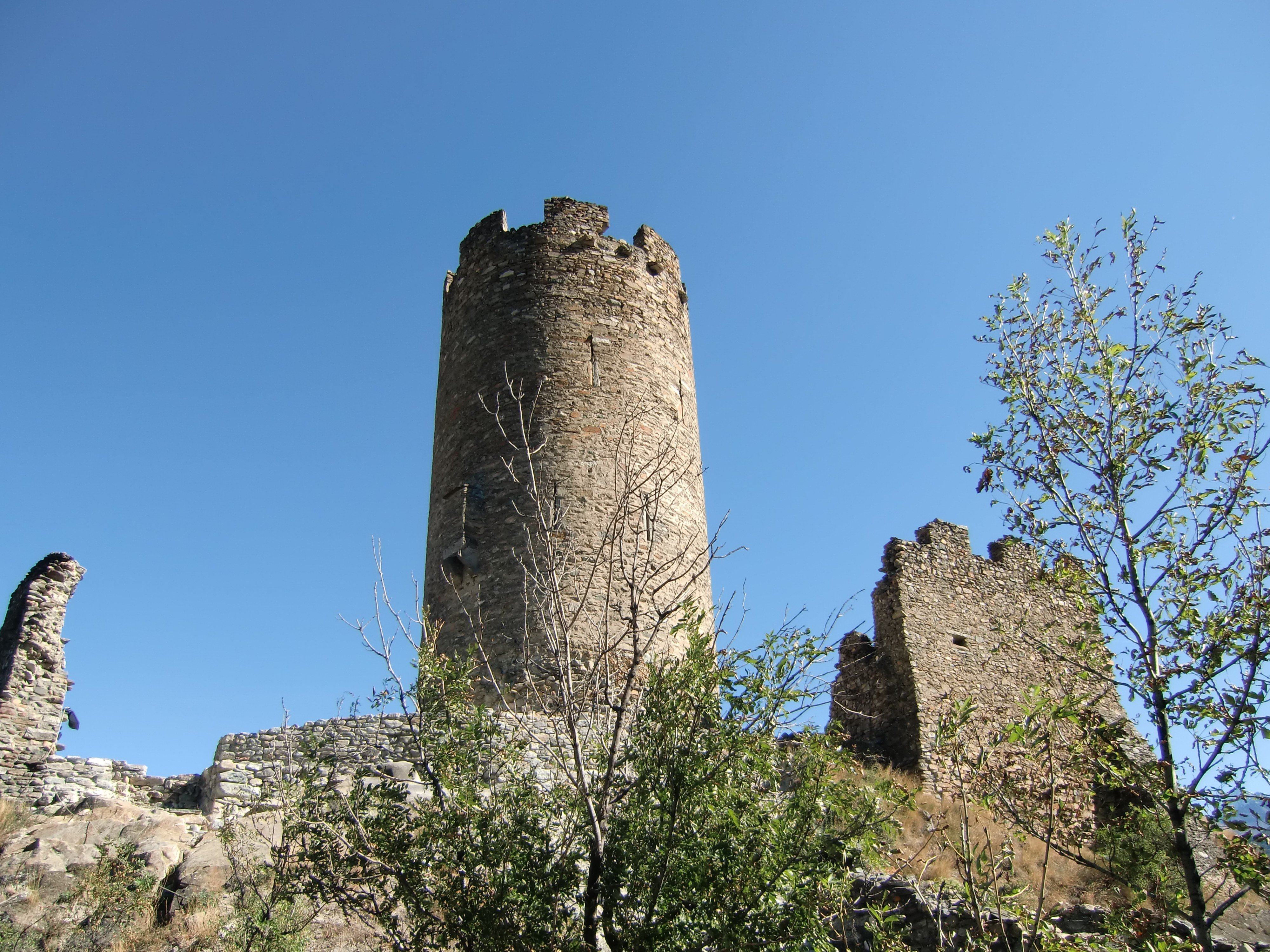 Chatel-Argent Castle, Villeneuve, Aosta Valley